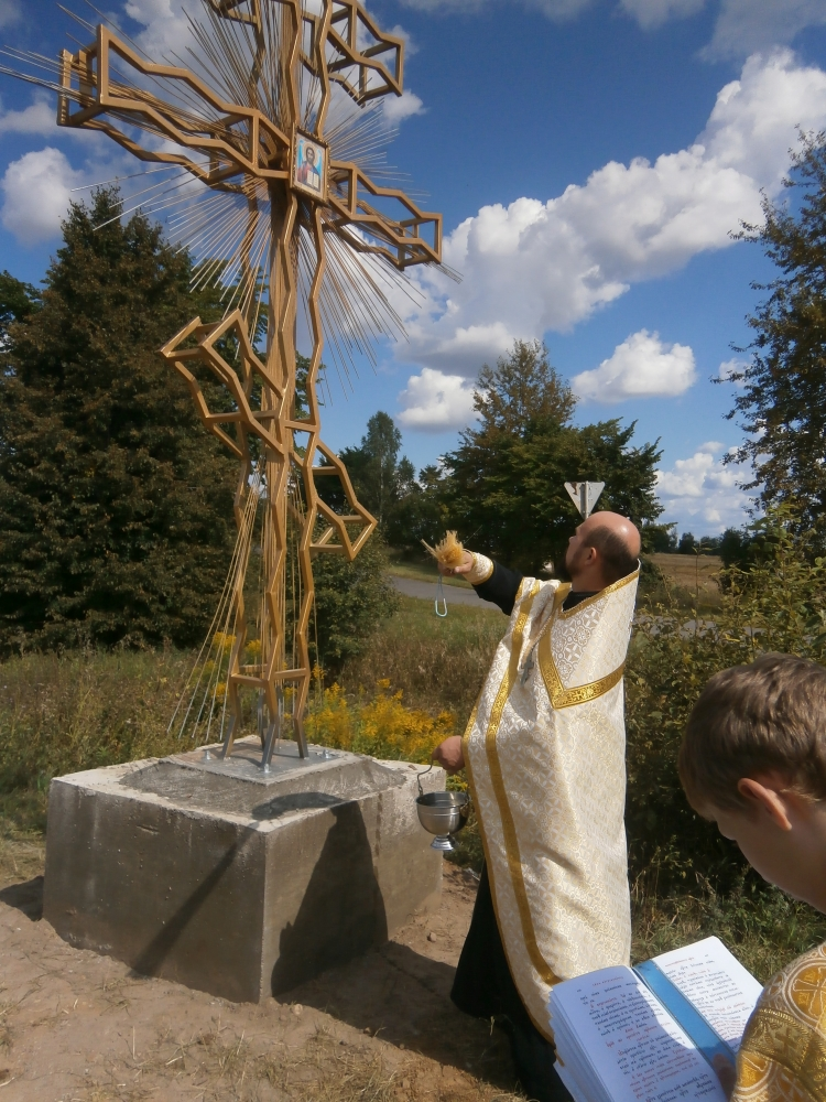 The baptism of the cross by water in the village of Usyazh (Minsk region, Belarus). Photoed 2015 AD